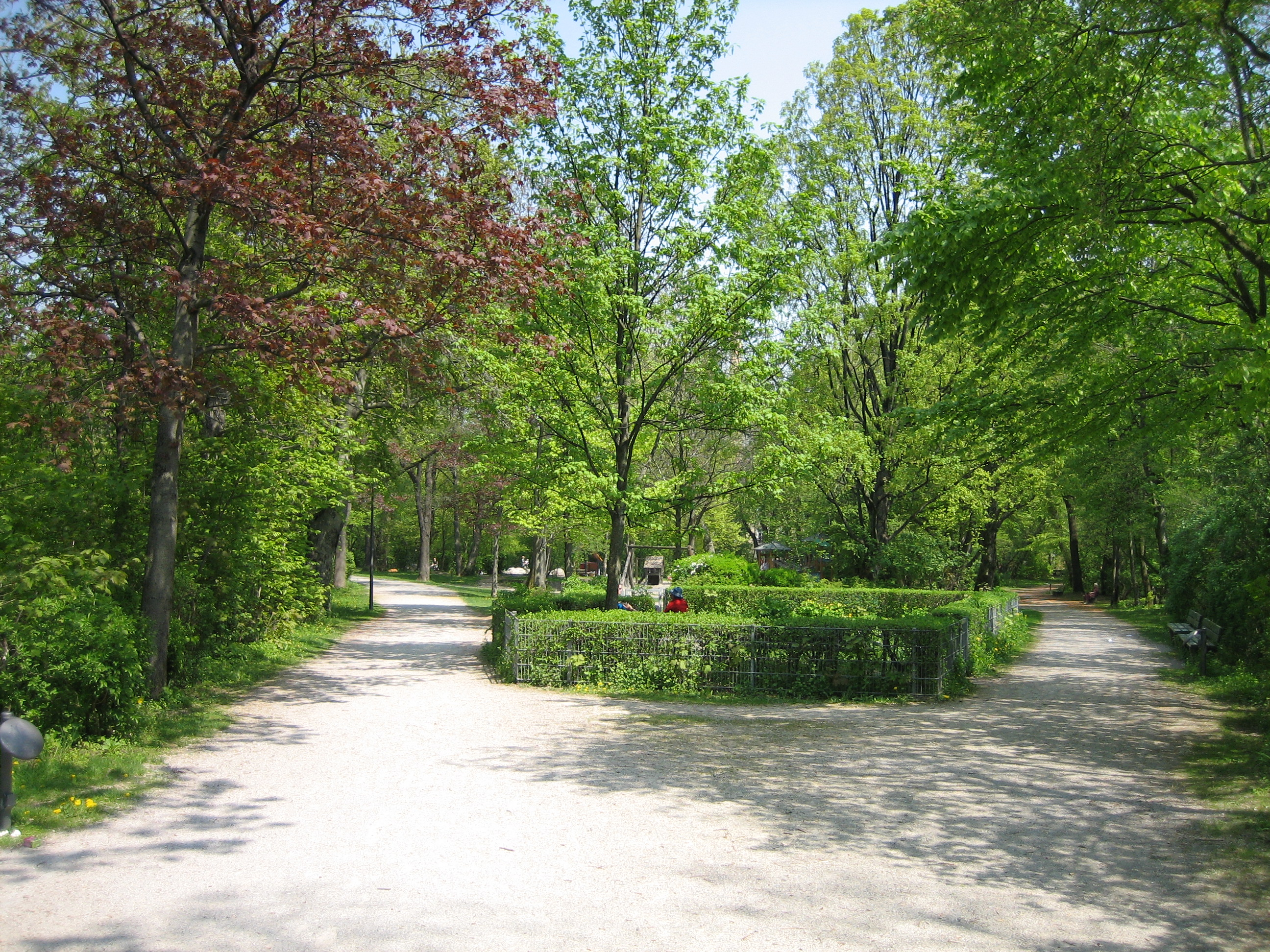 Public Kronepark on the Munich Nockherberg as seen from the south-west